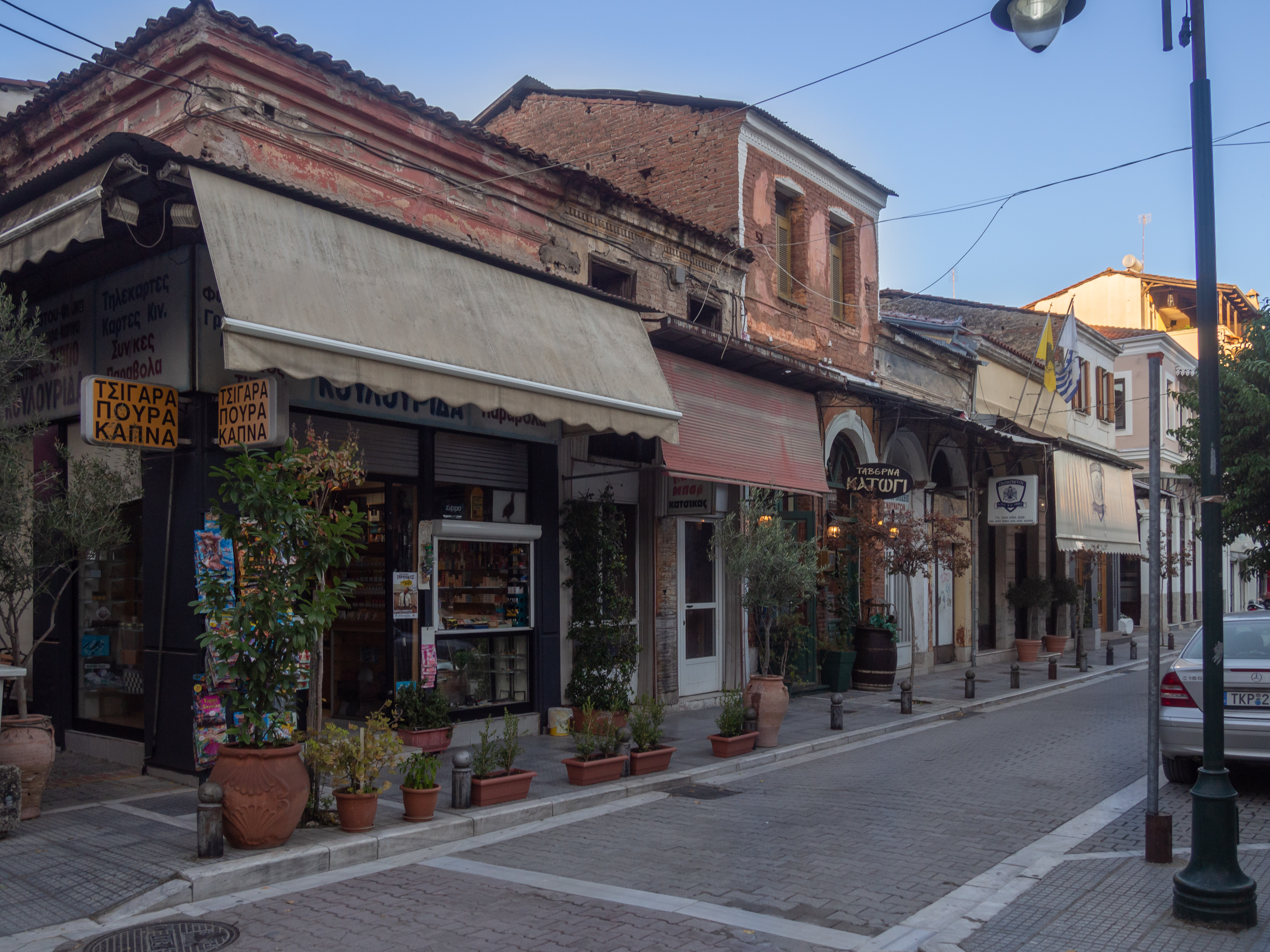 The district of the Trikala town known as Manavika, dating from early 20th century.